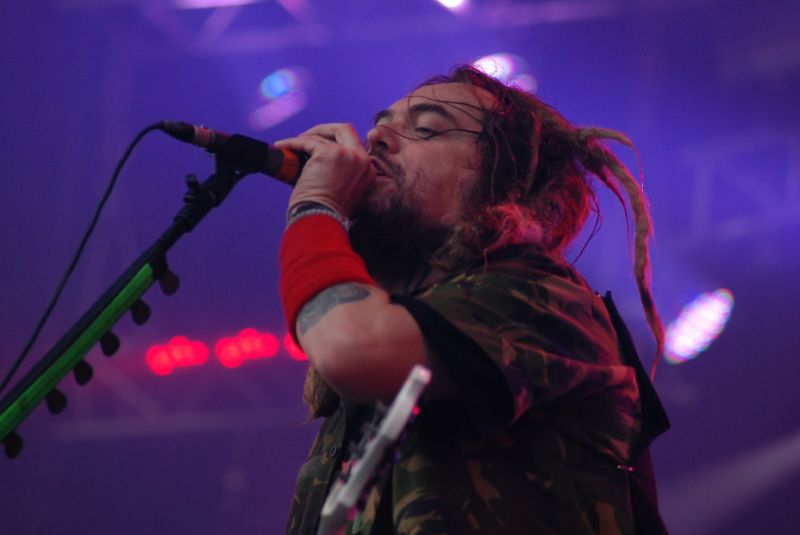 Max Cavalera in a gig in 2008.